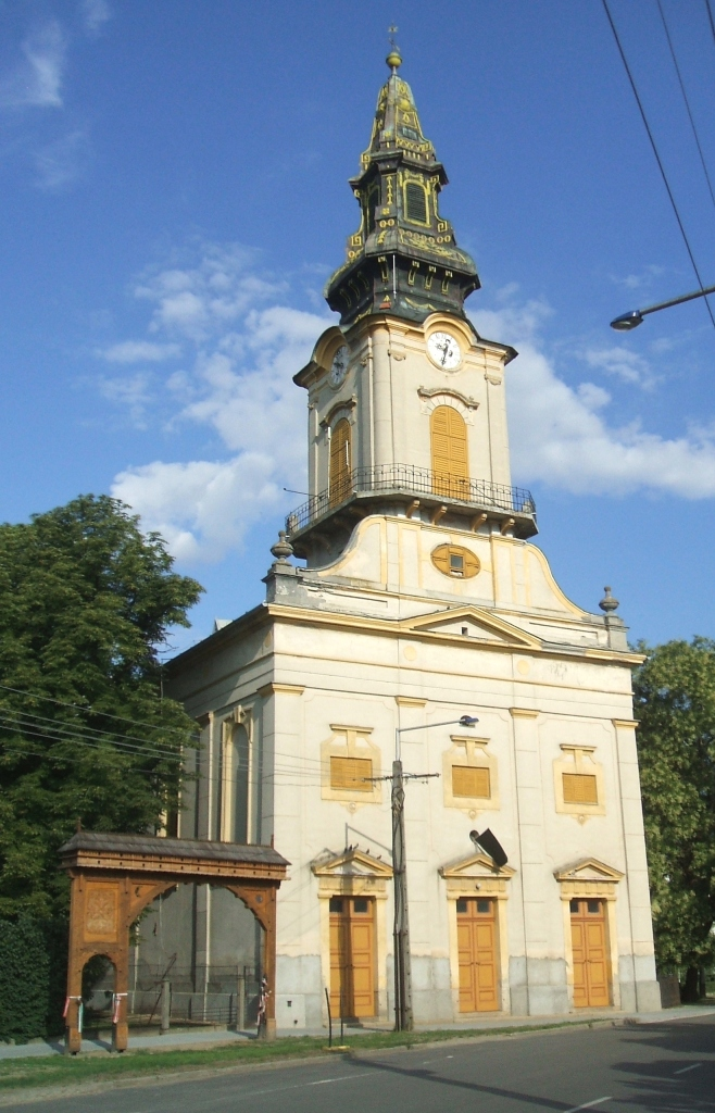 Hungarian Reformed (Calvinist) church in Túrkeve, Hungary